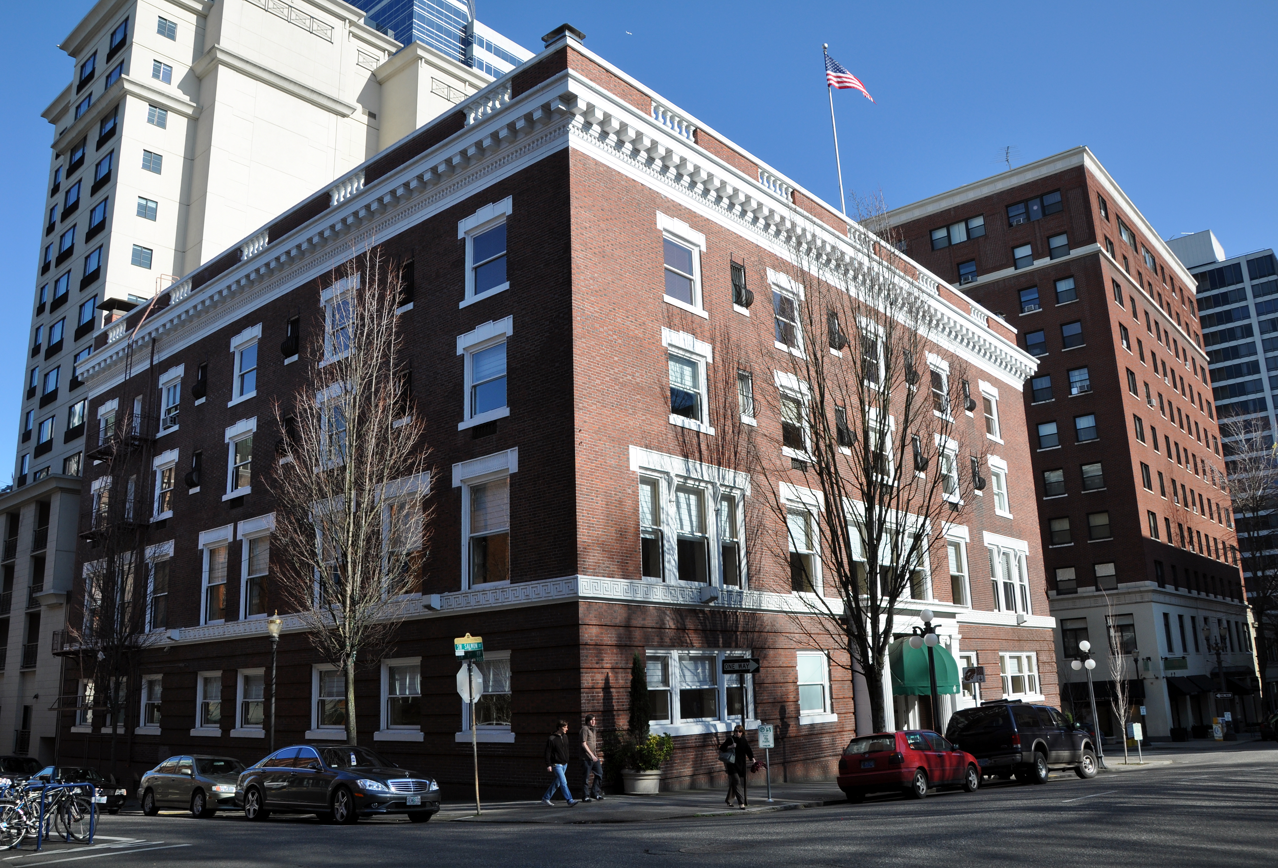 The Arlington Club building in Portland, Oregon, United States, is at 811 Southwest Salmon Street across from the South Park Blocks. It was built in 1891 by the architecture firm Whidden & Lewis.